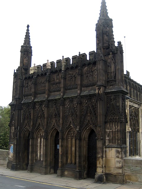 View of the Chantry Chapel of St Mary, Wakefield, West Yorkshire, England.